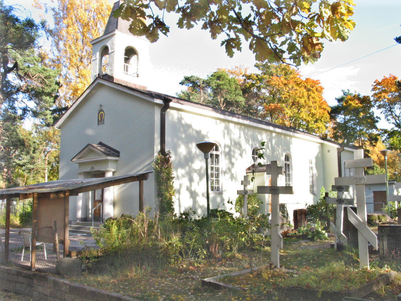 Church of St. Nicholas in Helsinki